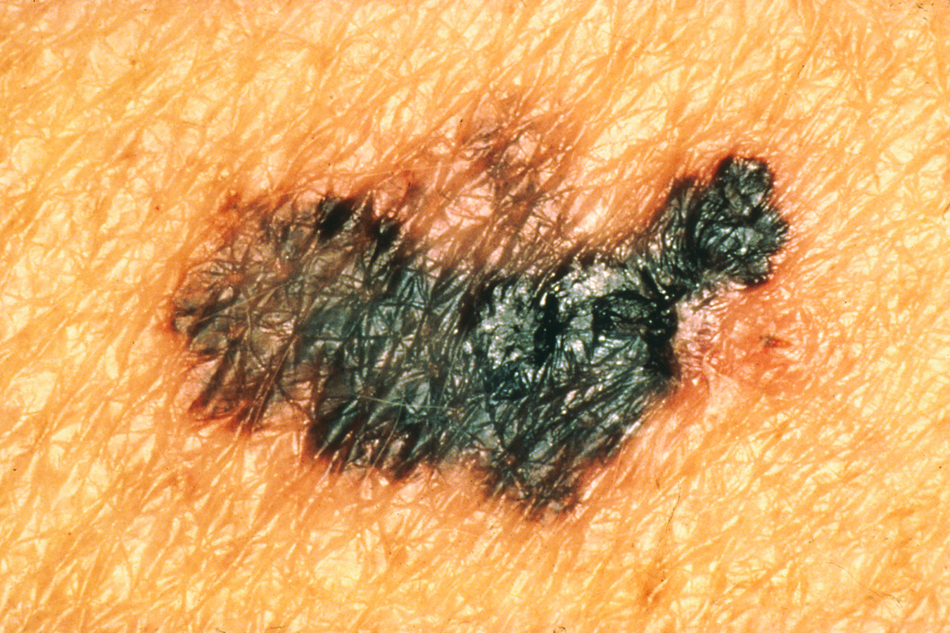 Title: Pathology: Patient: Melanoma: Color Description: Seen is melanoma, with coloring of different shades of brown, black, or tan. Part of the ABCDs for detection of melanoma. See artwork: WYNTK-15b. Topics/Categories: Pathology -- Patient Type: Color Slide Source: Skin Cancer Foundation Author: Unknown photographer/artist AV Number: AV-8809-4037 Date Created: September 1988 Date Entered: 1/1/2001 Access: Public